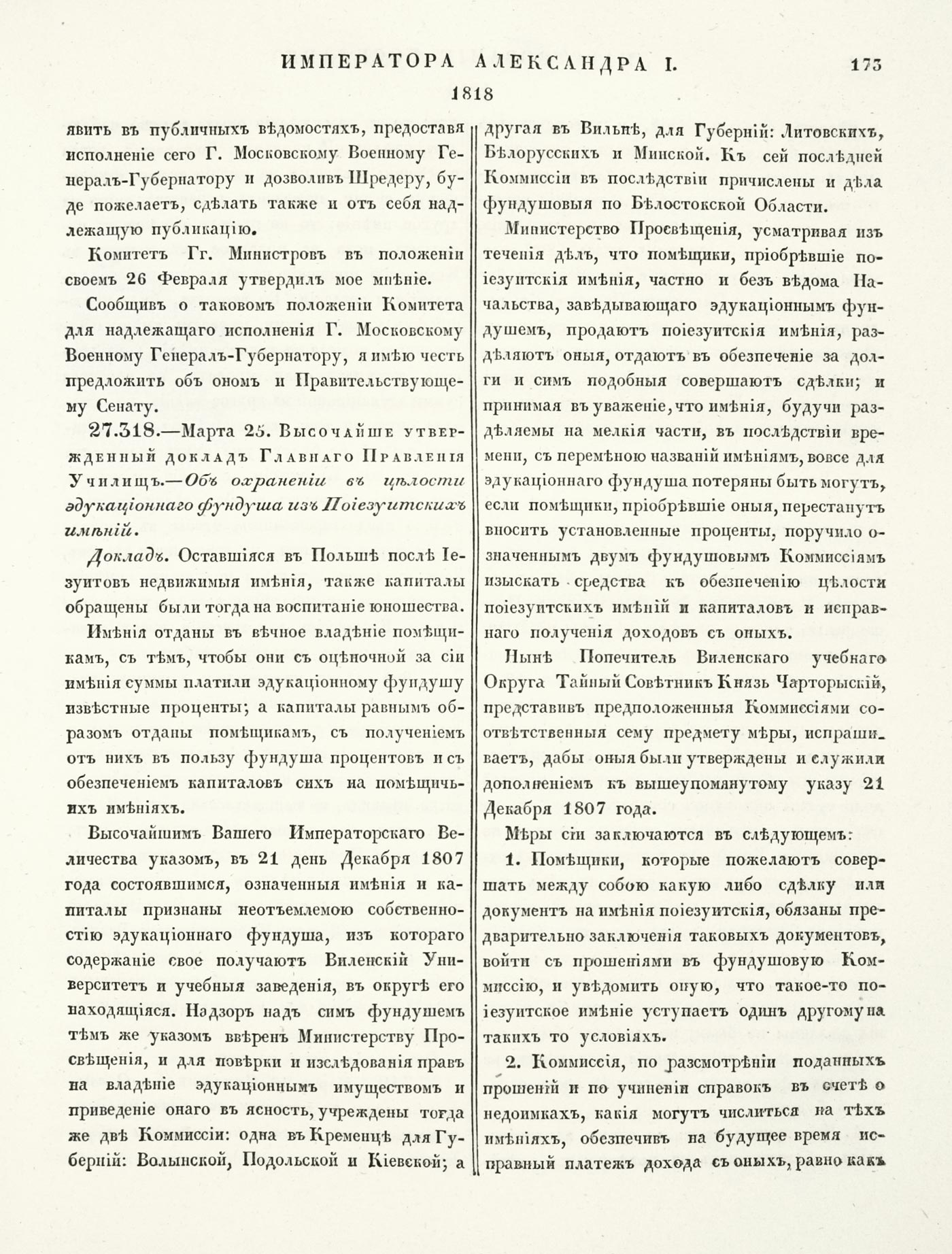 Complete Collection of Laws of the Russian Empire. Т.35 nr 27318 - page 173, 1818 AD